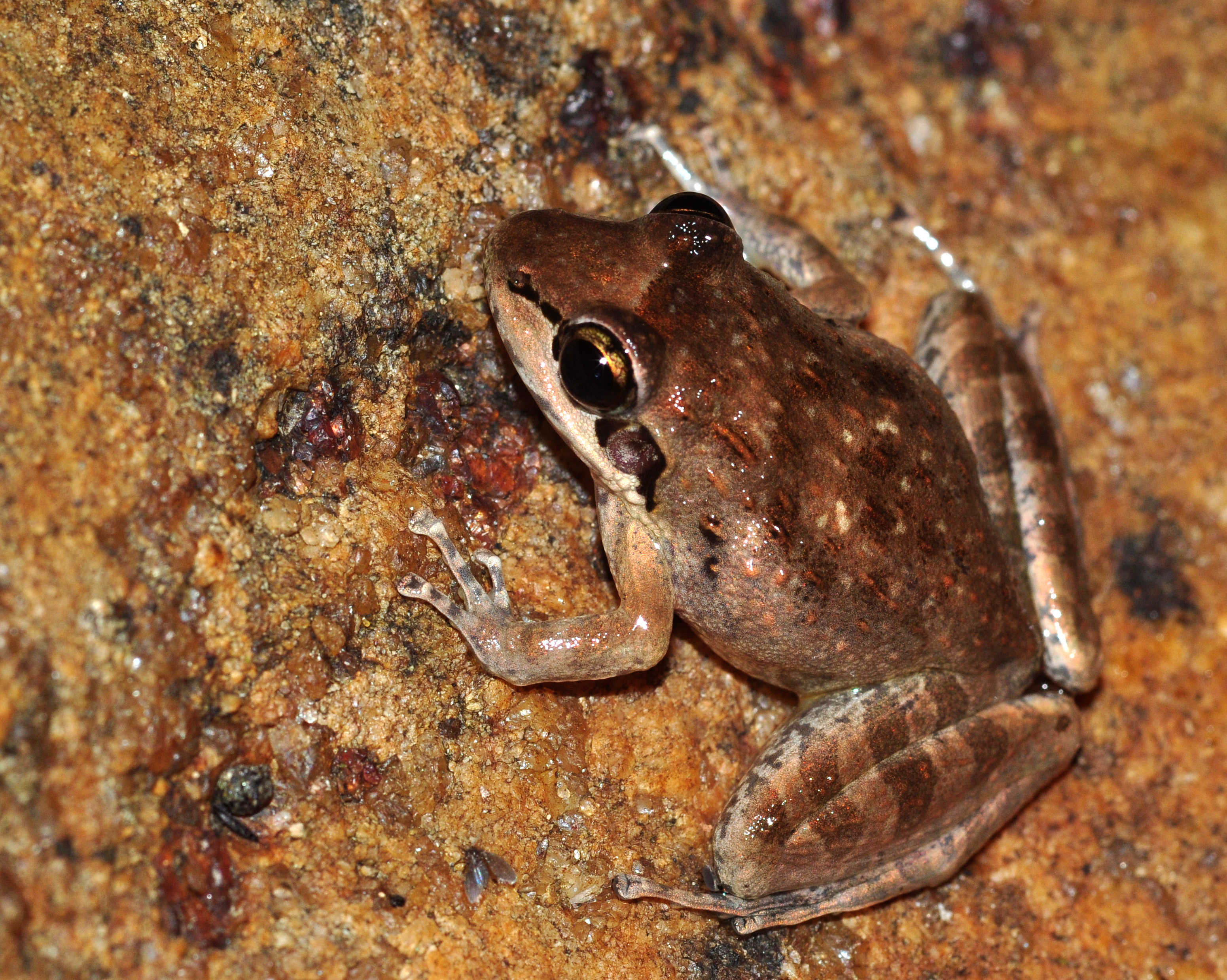 Dorsal view of Indirana beddomii